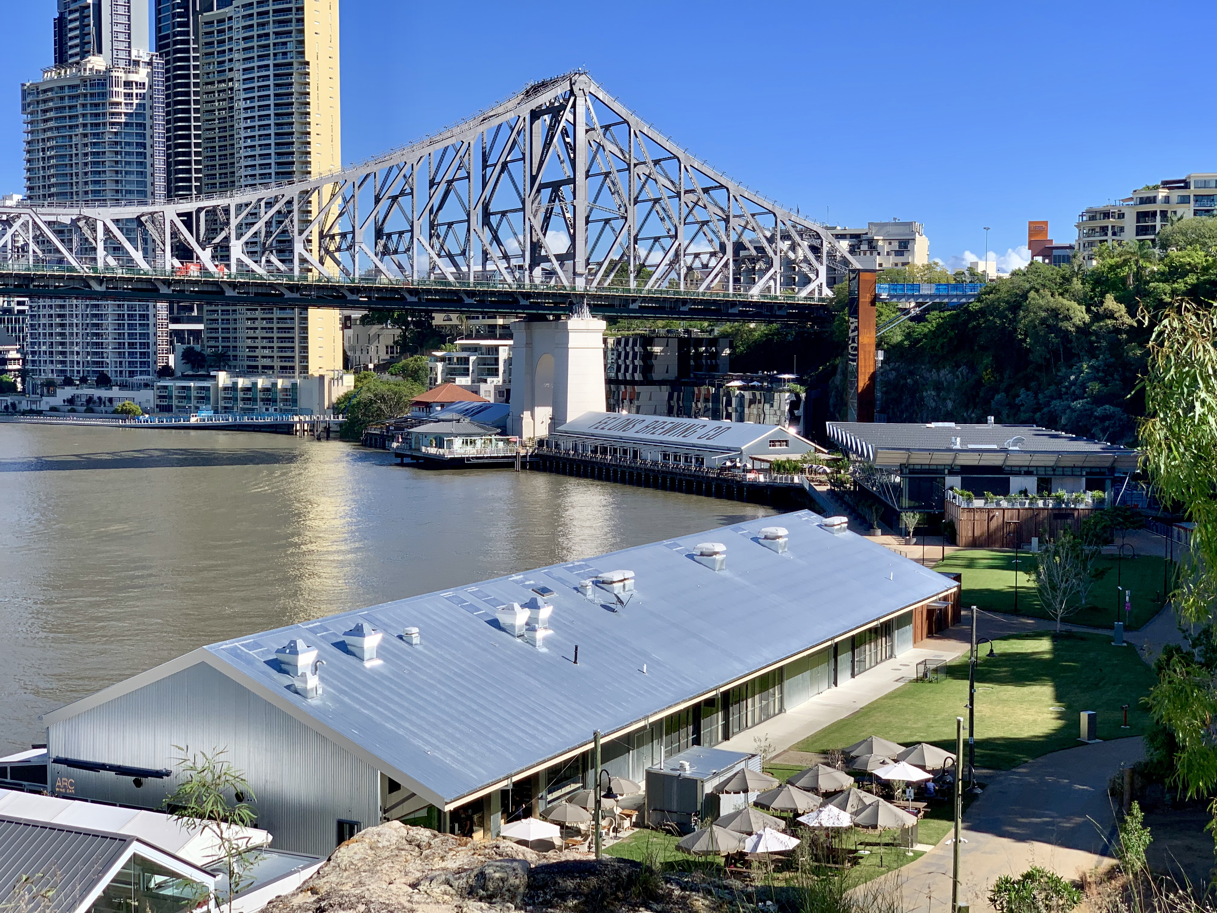 Howard Smith Wharves under Story Bridge seen from Wilson Outlook Reserve, Brisbane, Queensland